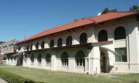 Hale Bathhouse, on Bathhouse Row in Hot Springs National Park. NPS Photo/Gail Sears